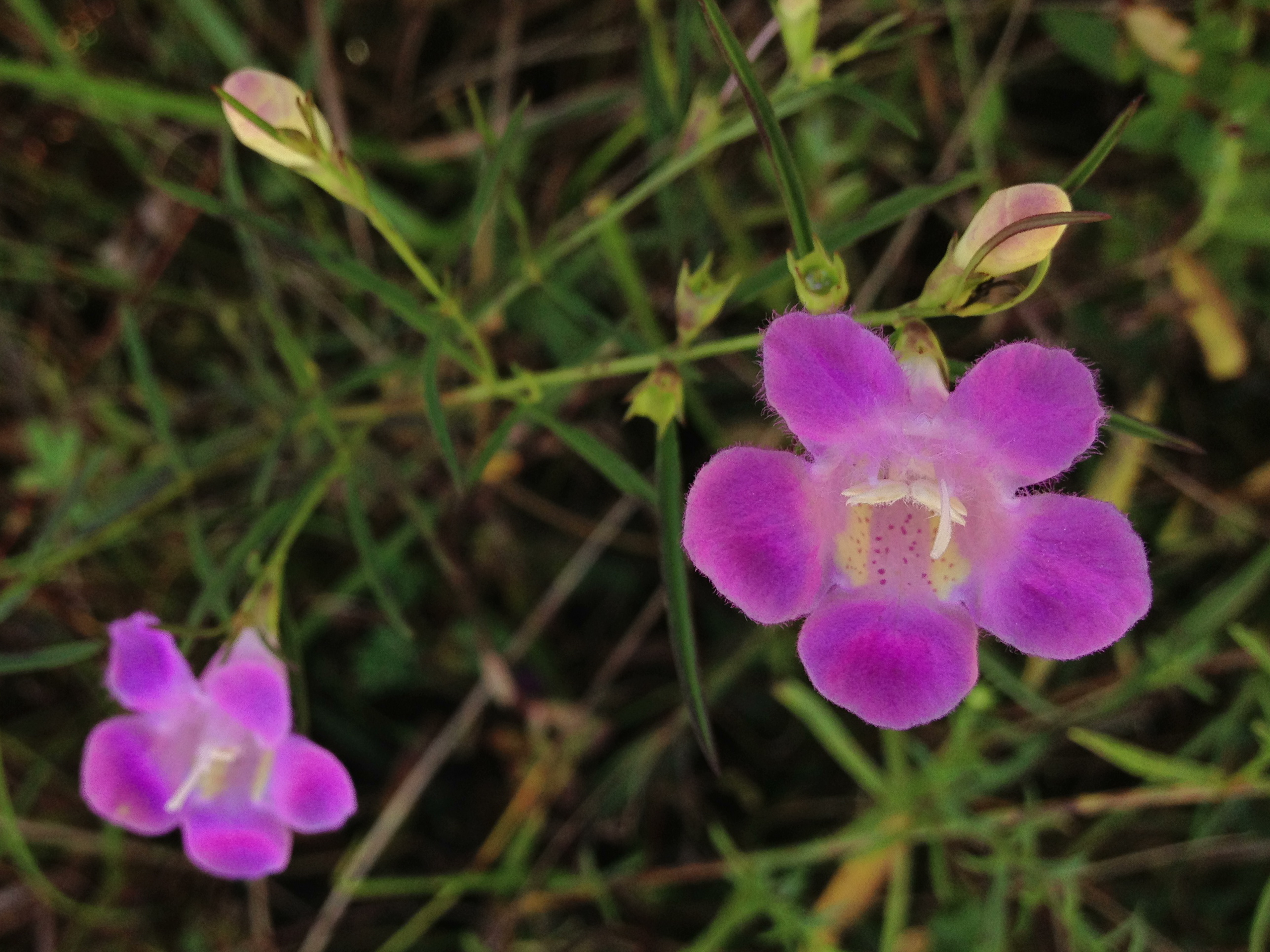 Photo of Agalinis purpurea. This is a native plant growing wild in a power line cut in Wakefield Park, in Fairfax county, Virginia, USA. This species is a member of the Orobanchaceae family.